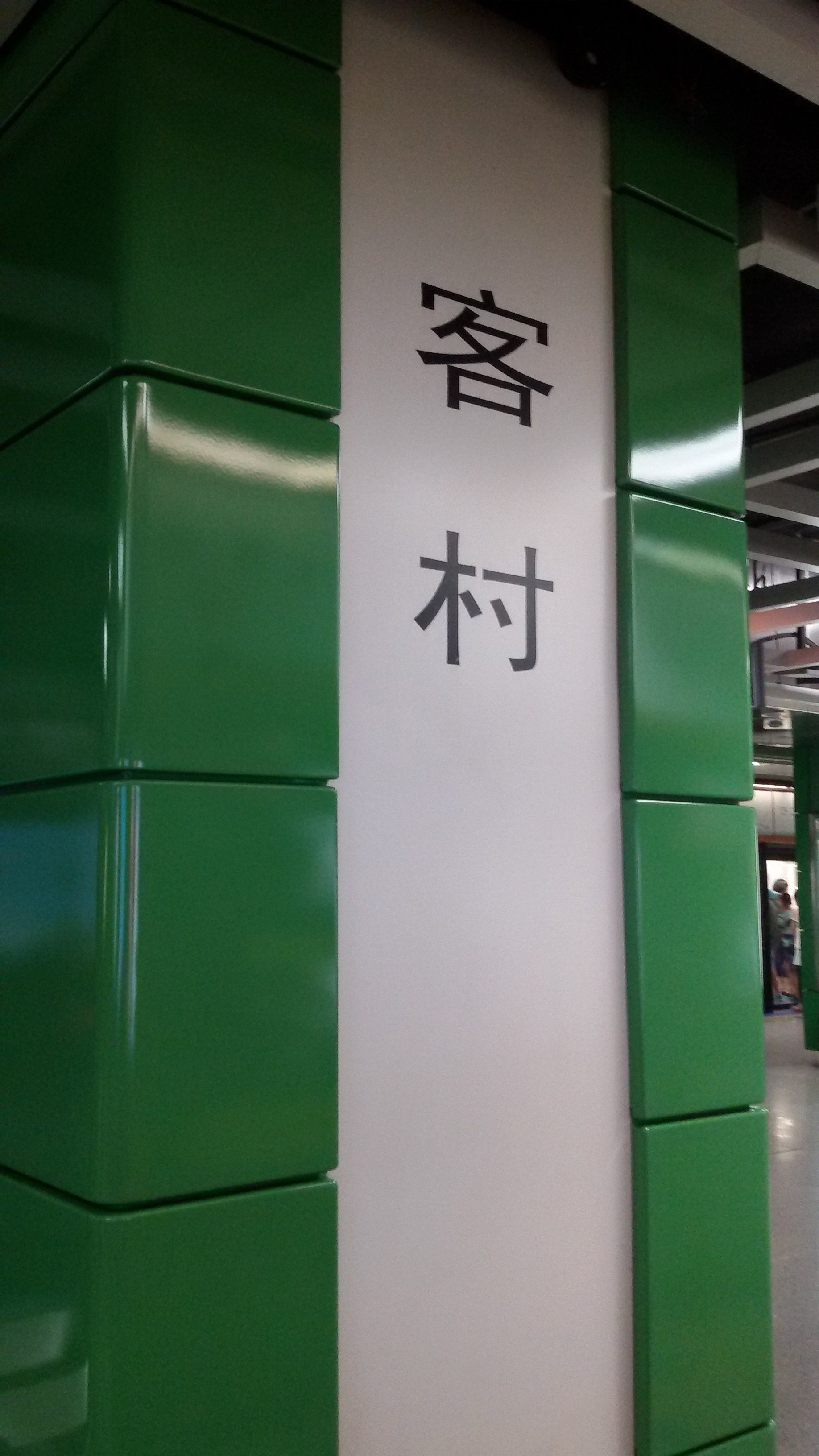 WORD on PILLAR for Kecun Station at Line 3 in Guangzhou Metro.